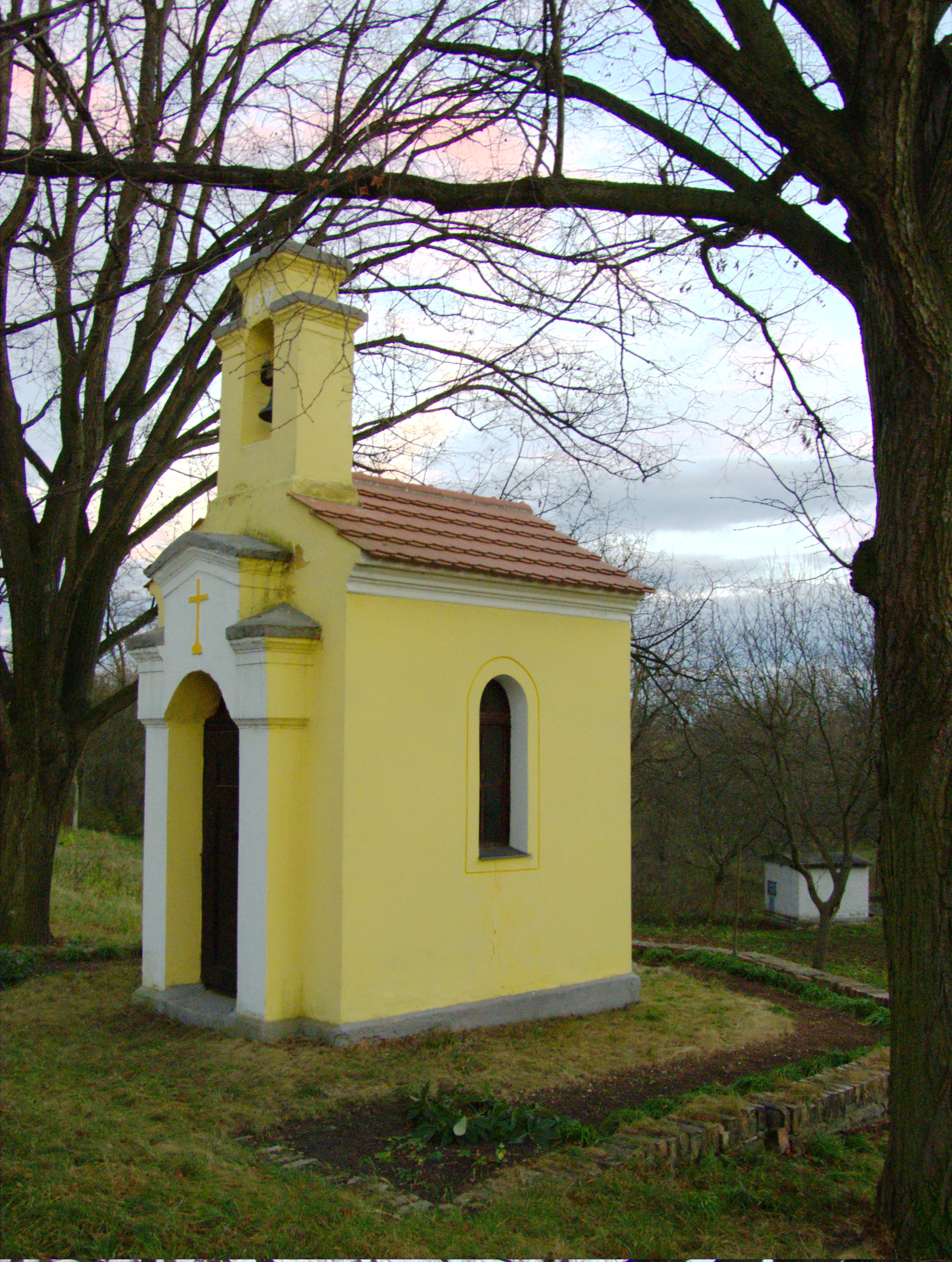 A chapel in the village of Radimek in Central Bohemian Region, CZ This photograph was taken within the scope of the third year of the 'Czech Municipalities Photographs' grant.